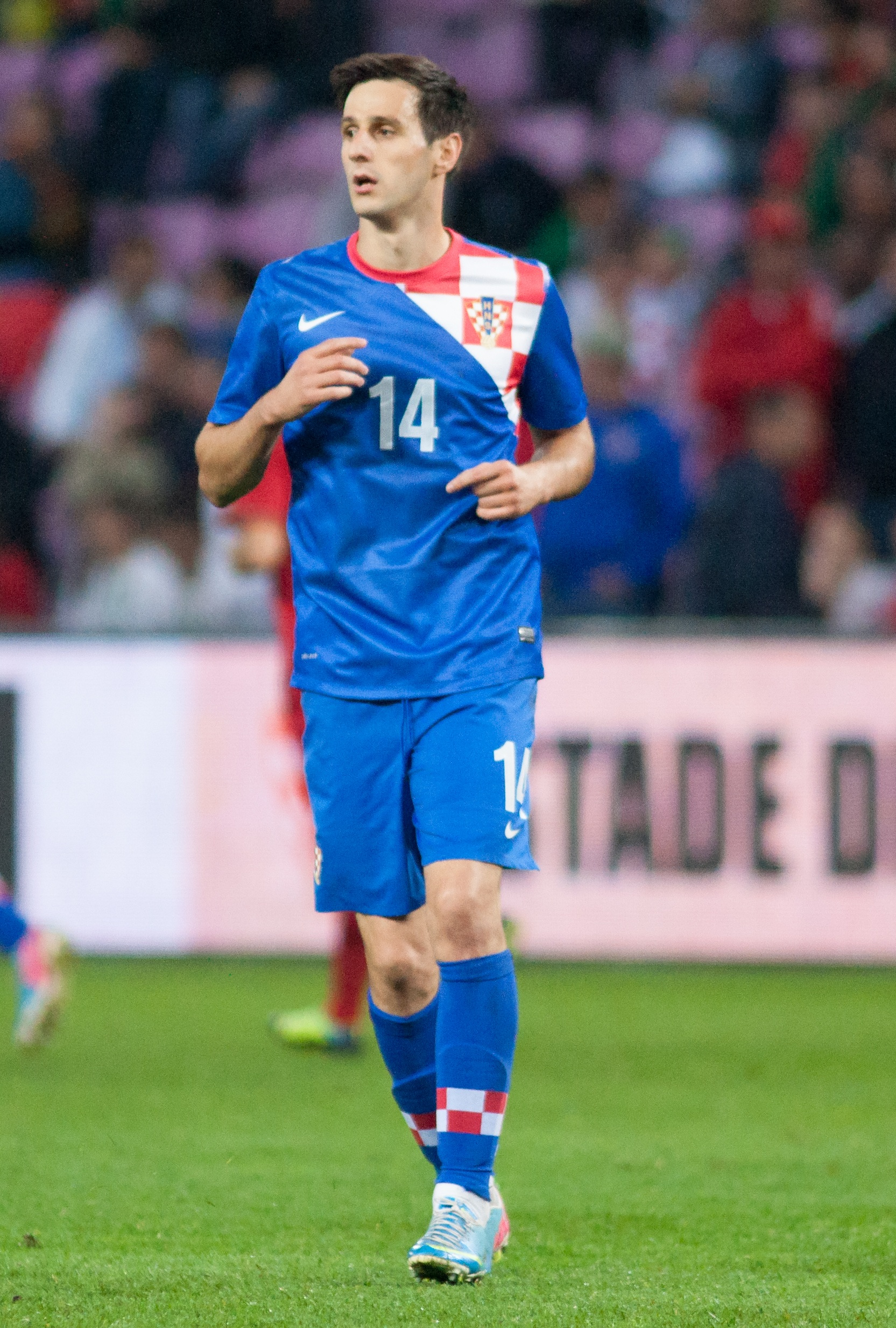 Croatia vs. Portugal, 10th June 2013